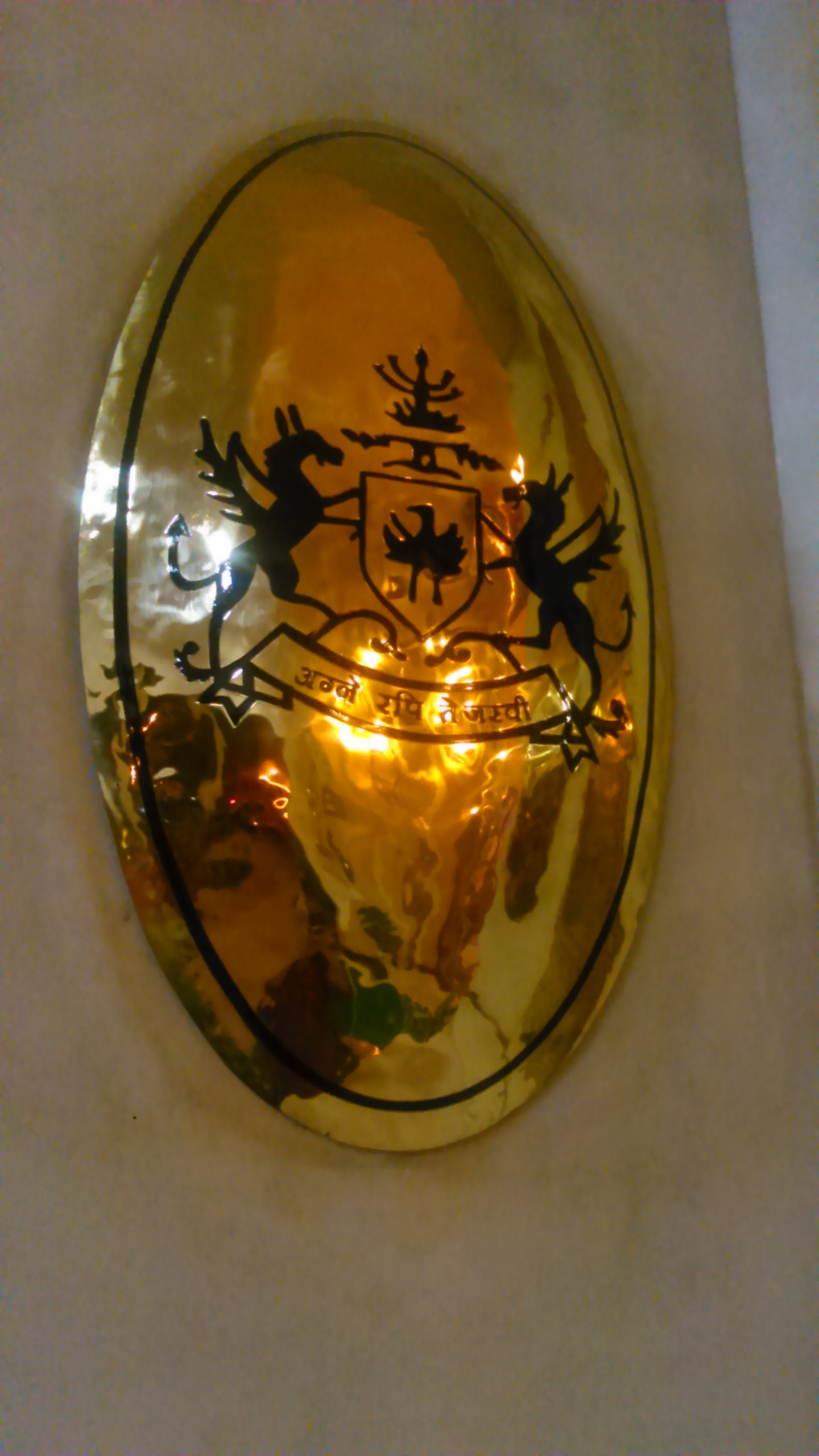 Insignia of The Royal House of Kotah